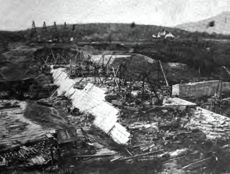 Photograph of the Olivebridge dam under construction circa 1910 for the construction of the Ashokan Reservoir in New York.